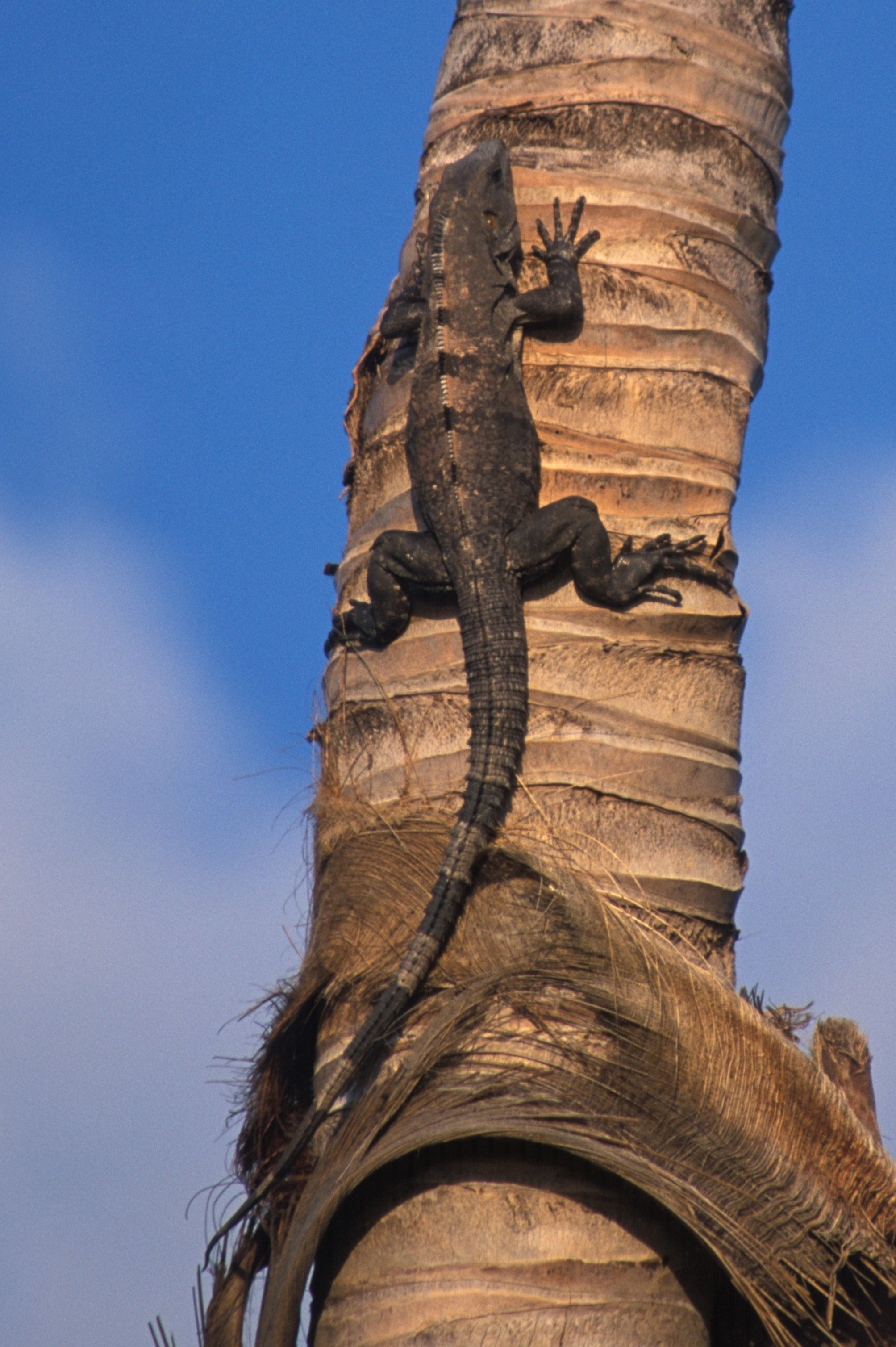 Mexican Spiny-tailed Iguana (Ctenosaura pectinata). Caye Caulker, Belize.